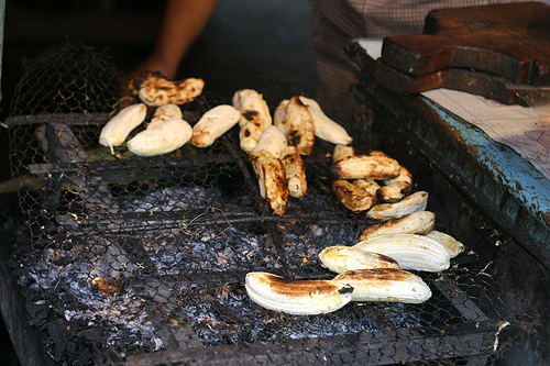 Grilled Banana, traditional West Sumatran snack